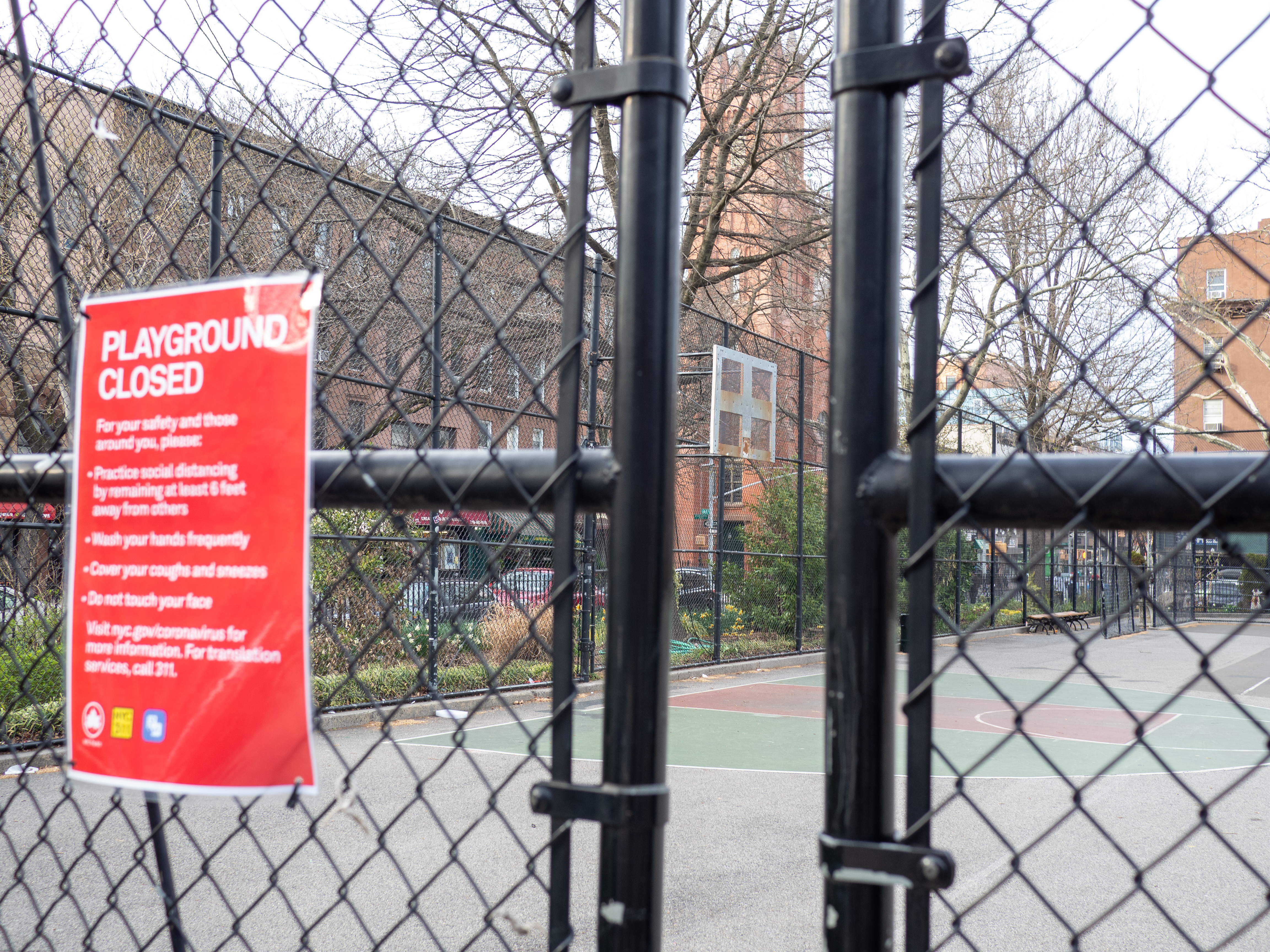 Playground in Brooklyn, NY closed during the COVID-19 pandemic. Basketball hoops have been removed.